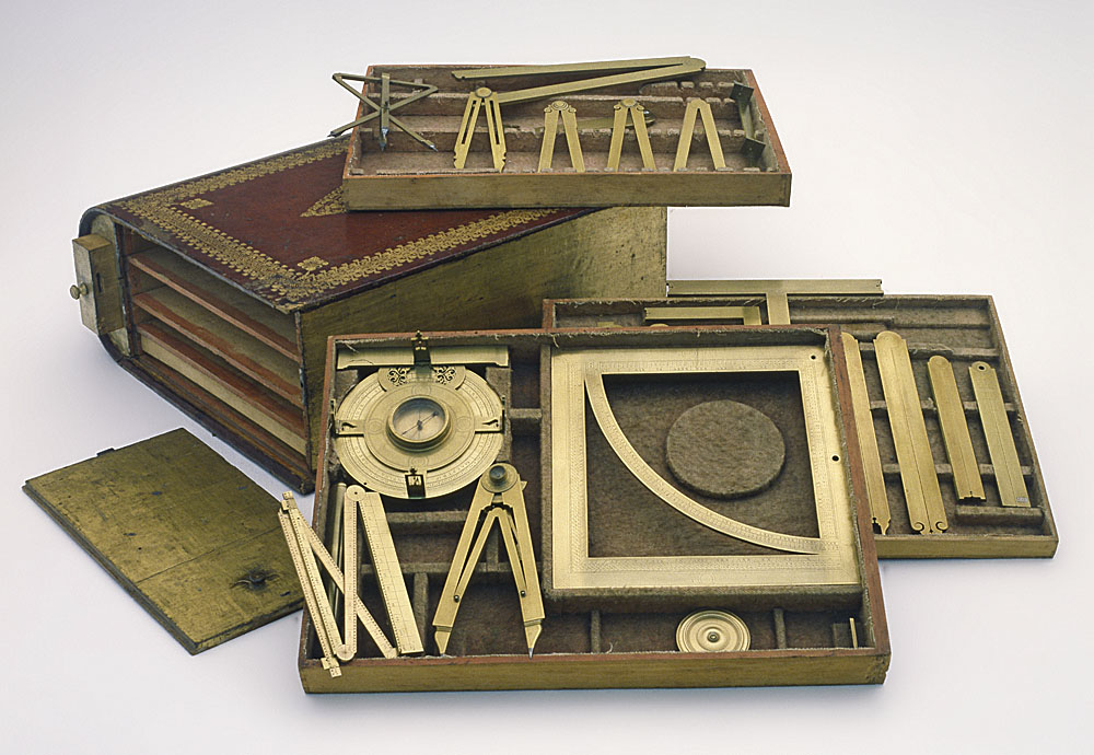 AuthorUnknownDescription